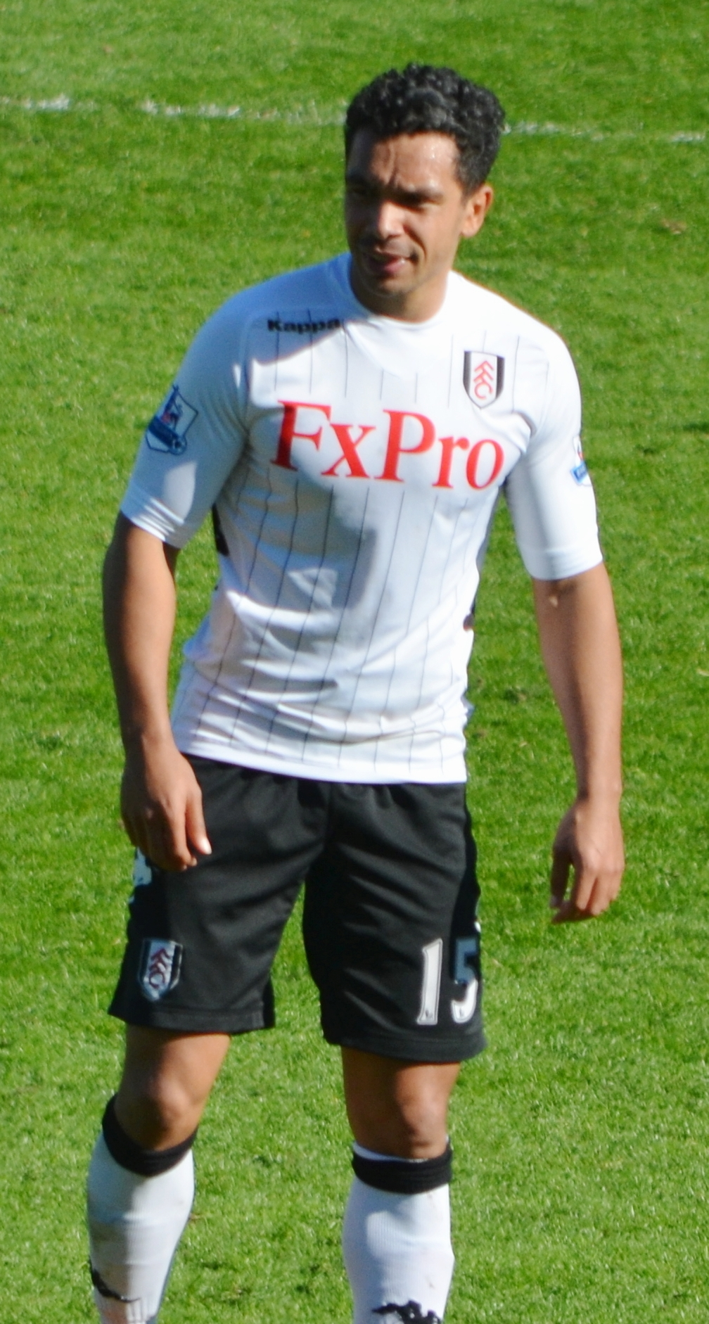 Kieran Richardson playing for Fulham against Arsenal at Craven Cottage, London on 20 April 2013